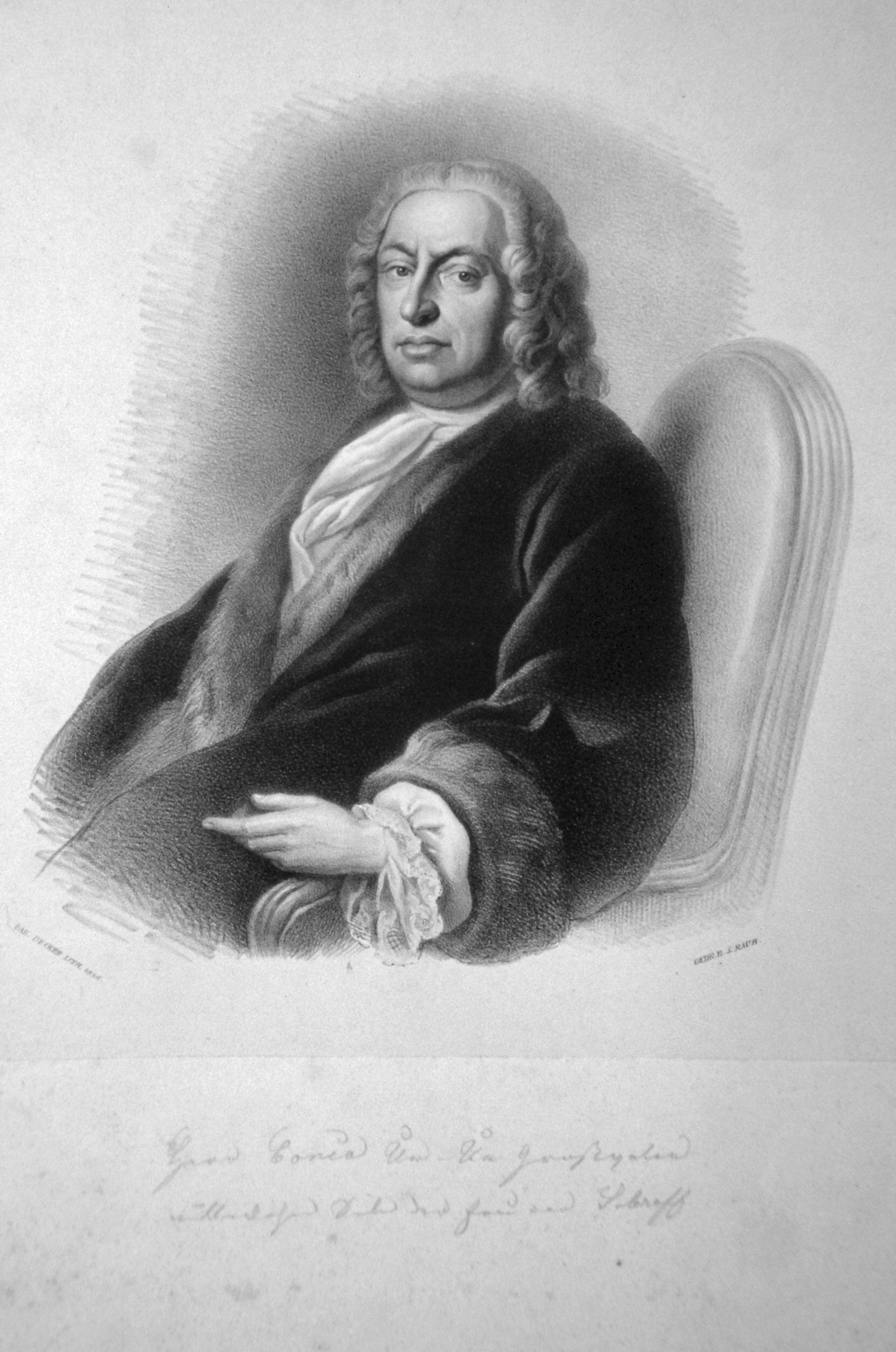 Sabastiano Conca (1680-1764), italian Painter Lithograph by Gabriel Decker, 1842